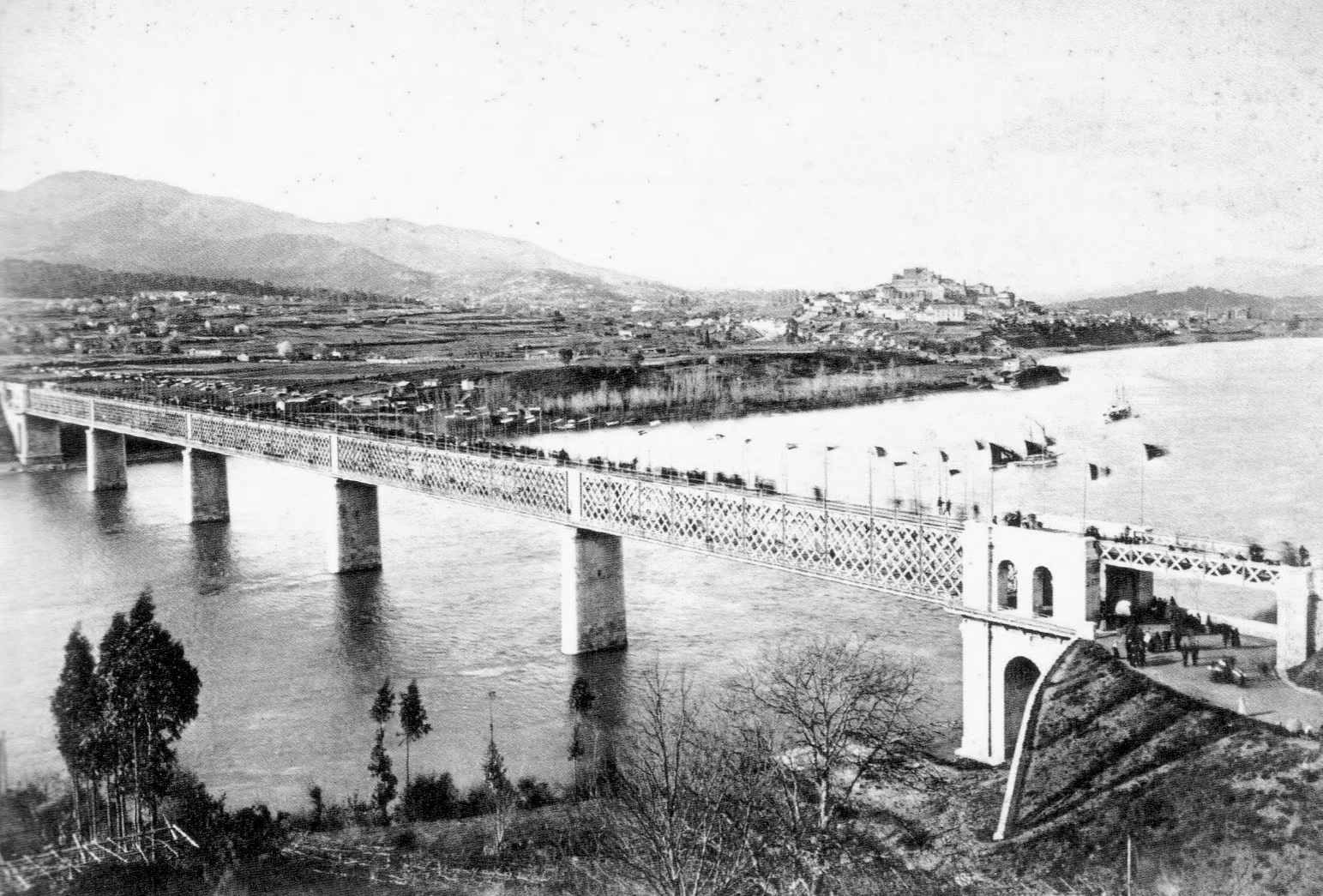 Inaugruration of the International Bridge at Tuy